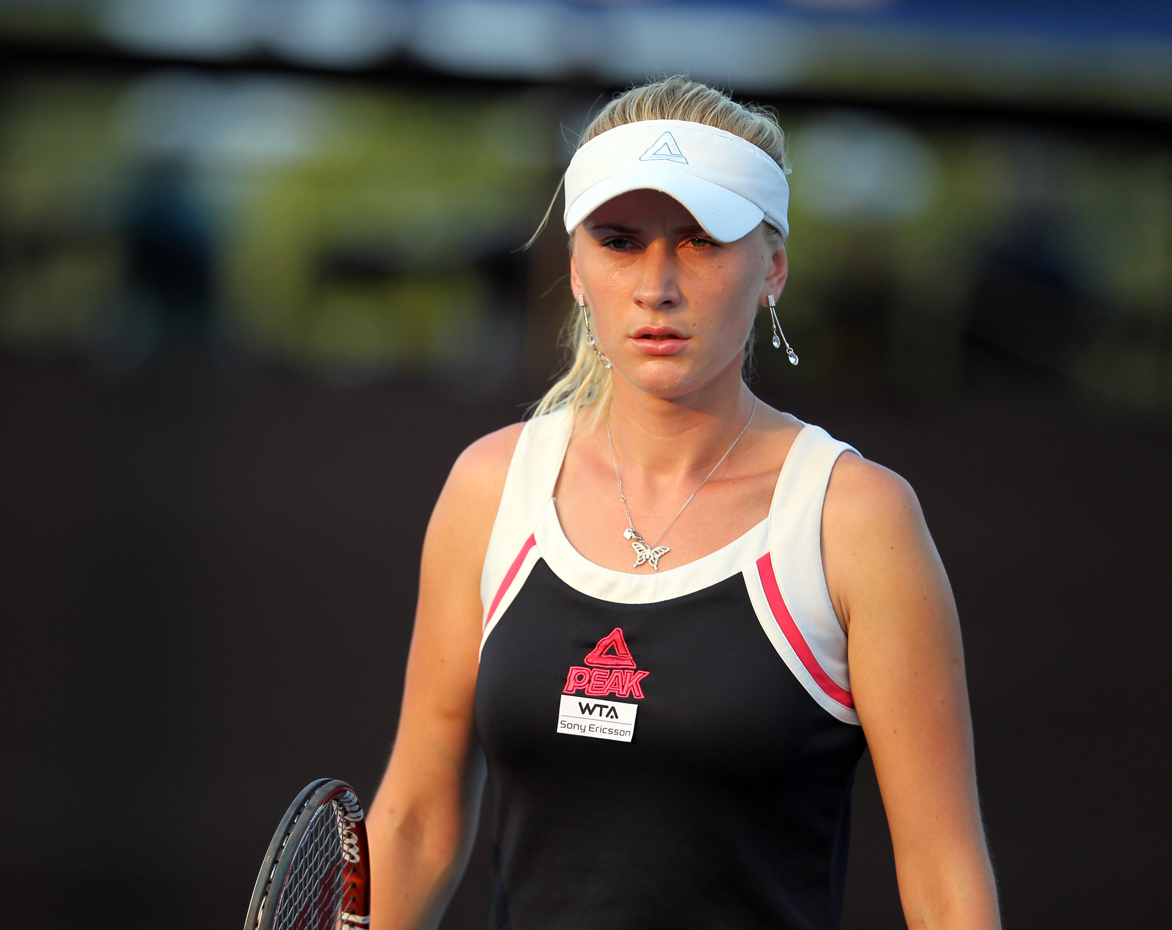 Citi Open Tennis July 29, 2011